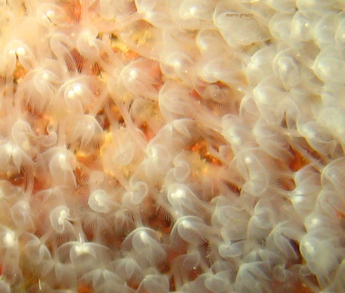 Phoronis hippocrepis photographed in shallow water in Italy. Photo by Maria Grazia Montanucci.